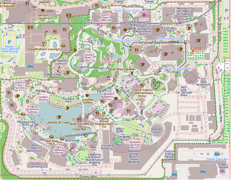 OpenStreetMap image of Disney California Adventure for Wikipedia article use.